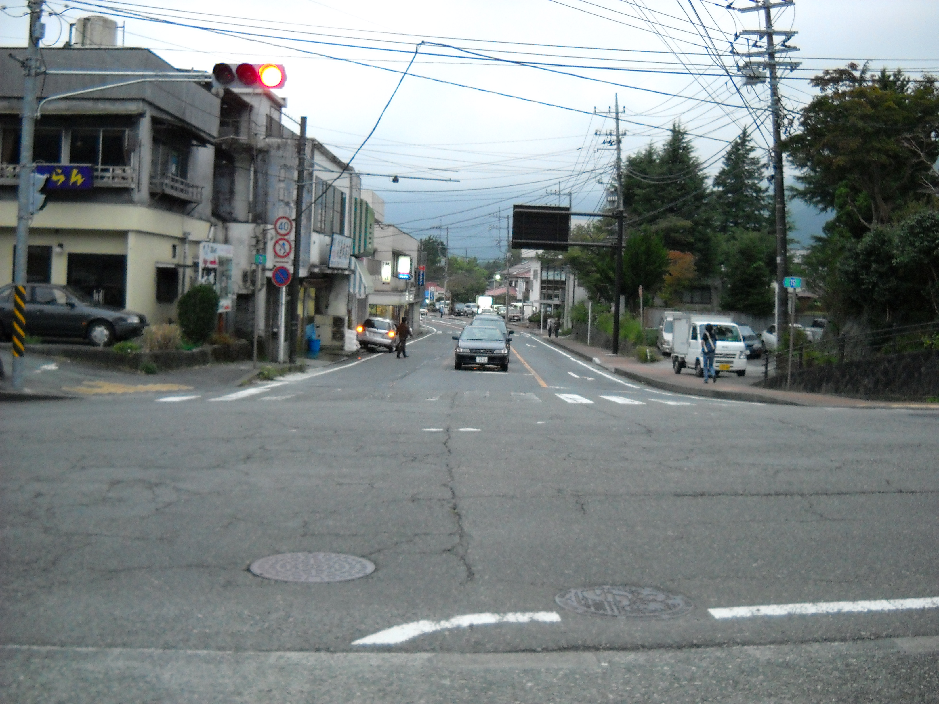 Kanagawa prefectural road route 75, Sengokuhara, Hakone, Kanagawa, Japan